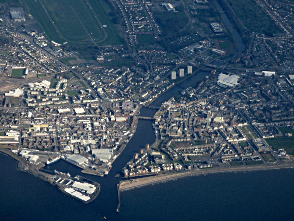 Ayr from the air